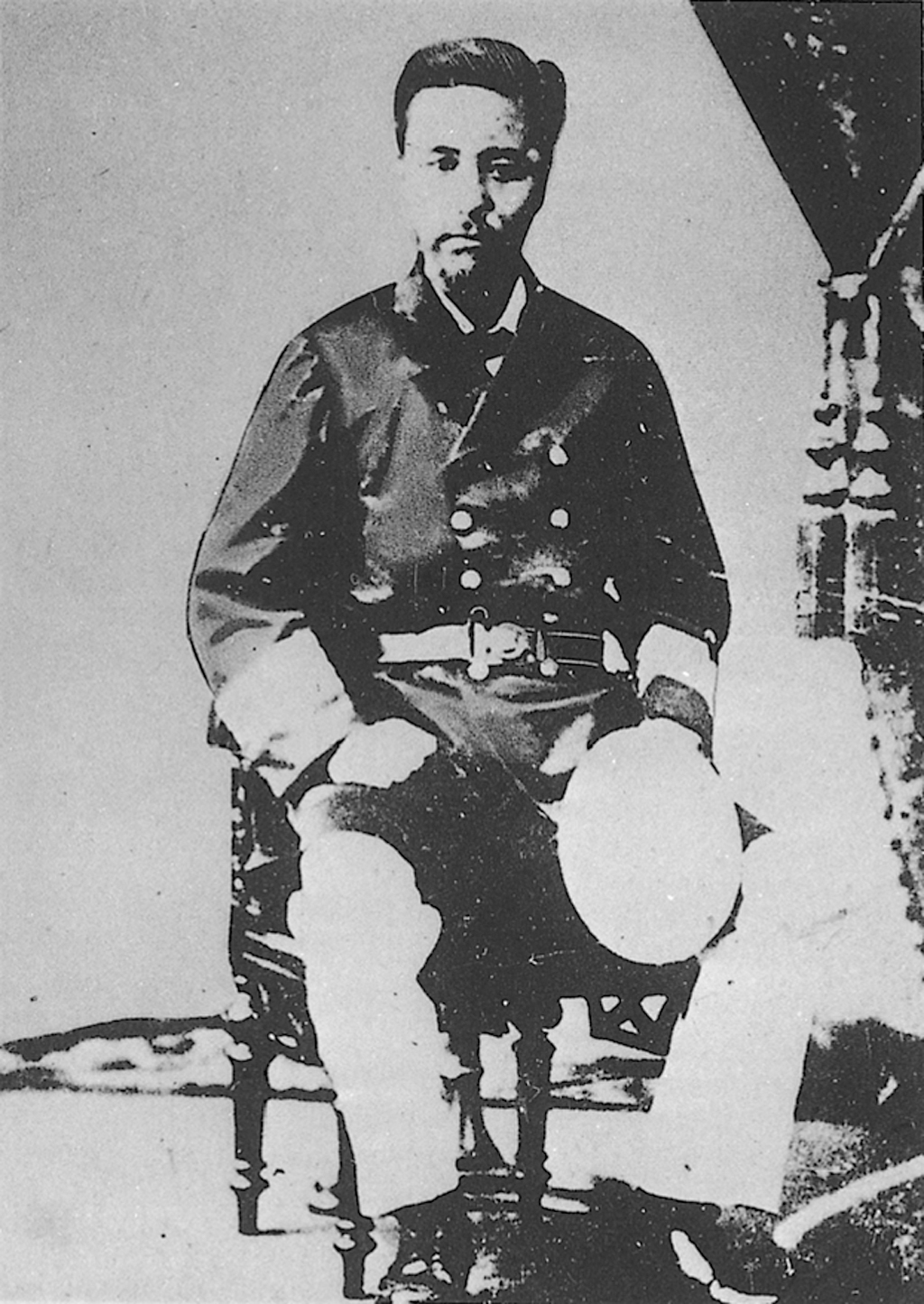 Portrait of Togo Heihachiro (東郷平八郎, 1848 – 1934)